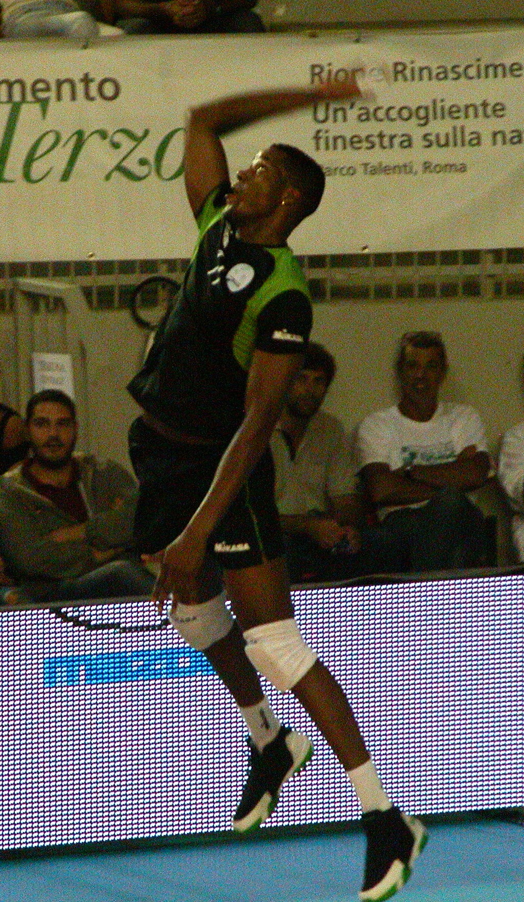 Cuban volleyball player Osvaldo Hernandez after his first game with the M. Roma Volley team